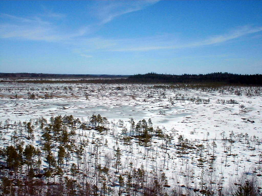 Torronsuo National Park in Tammela, Finland